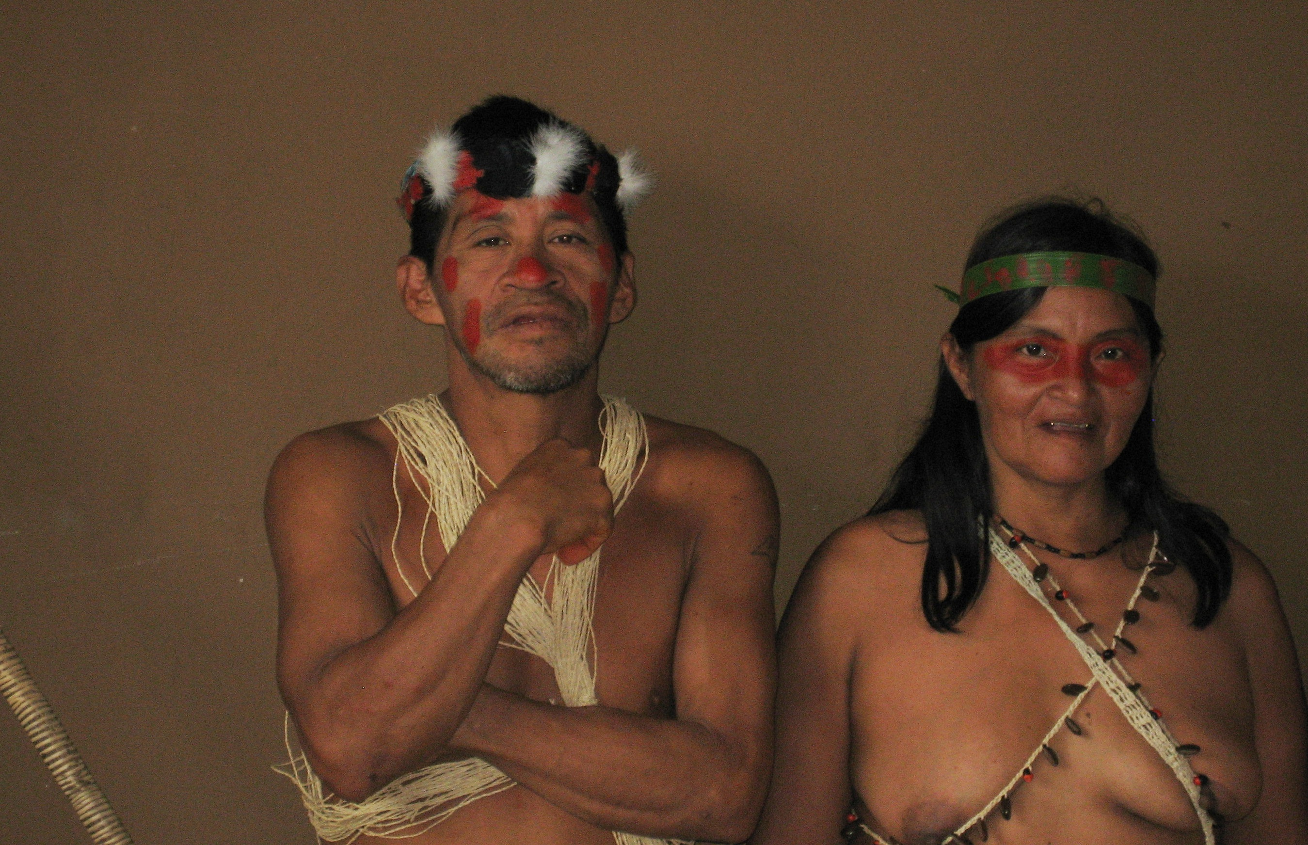 Man and woman from Huaorani village. Photographed in Ecuador, May 2008.